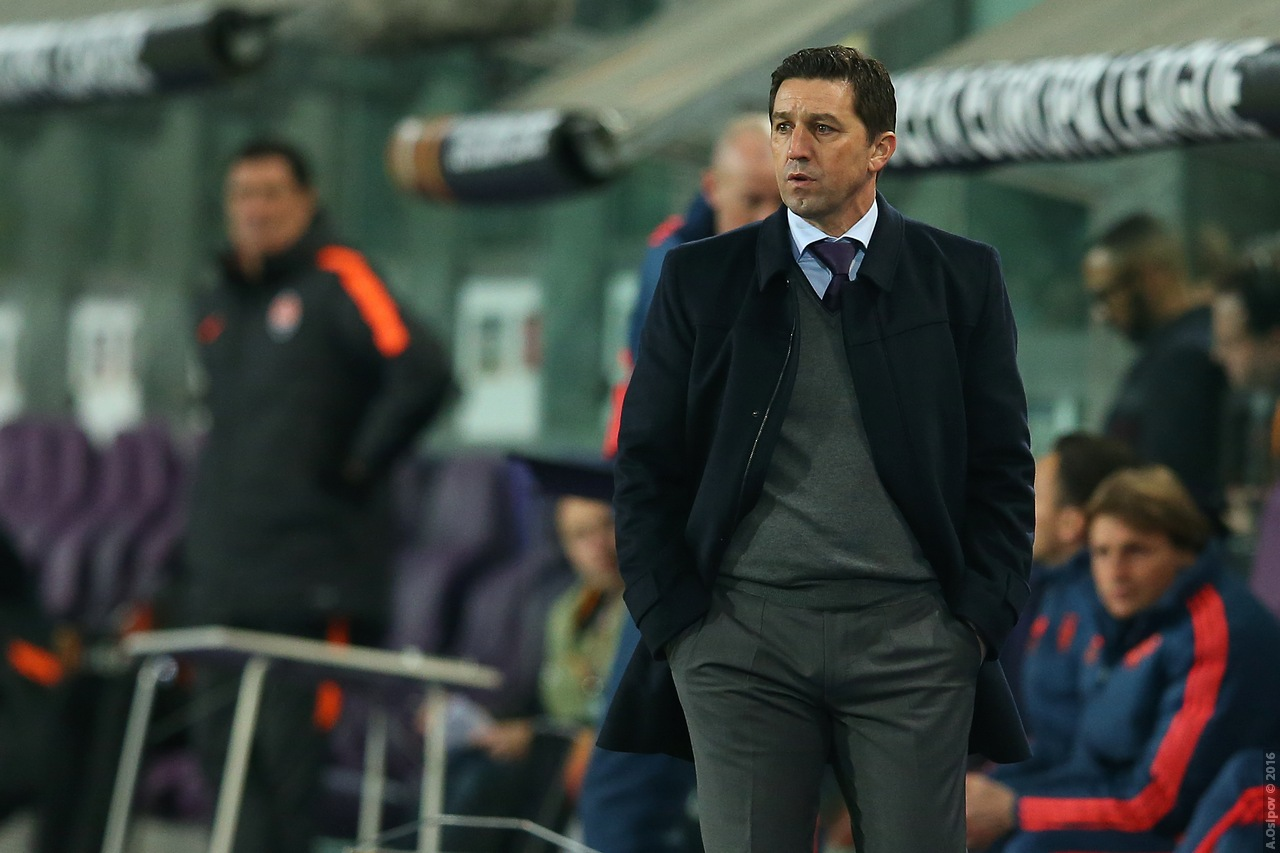 17.03.2016 Bruxelles/Brussel. RSCA Foundation Constant Vanden Stock. UEFA Europa League. Round of 16. RSC Anderlecht - FC SHAKHTAR - 0:1 Goals: 0:1 Eduardo (90+3) Anderlecht: Proto (c), Nahar, Mbodji, Neytink (Sylla, 78), Deschacht, Badji (Thielemans, 71), Defour, Prat, Ashampong, Ezekiel (Hassan, 71), Okaka Substitutes: Ruf, Heilen, Djuričić, Conte Head Coach: Besnik Hasi Shakhtar: Pyatov, Srna (c), Kucher, Rakytskyy, Ismaily, Stepanenko, Malyshev, Marlos (Eduardo, 90+1), Kovalenko (Ordets, 88), Taison (Dentinho, 83), Ferreyra Substitutes: Sarnavskyy, Nem, Bernard, Gladkyy Head Coach: Mircea Lucescu Booked: Neytink (12), Marlos (15), Defour (21), Kucher (36), Deschacht (46), Ezekiel (66), Stepanenko (82) Sending-off: Kucher (84, second yellow card), Mbodji (86) Referee: Antonio Mateu Laoz (Spain)